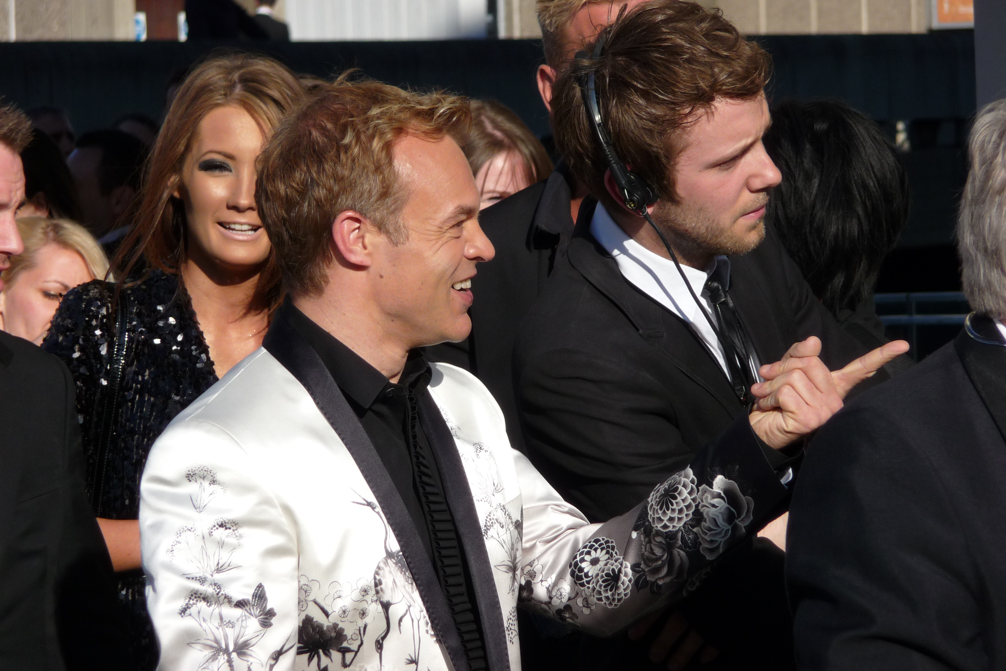 Graham Norton at the 2009 BAFTA award ceremony.